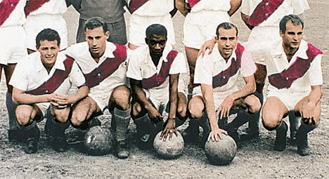 River Plate forwards Pérez, Delém, Moacyr, Pepillo and Roberto